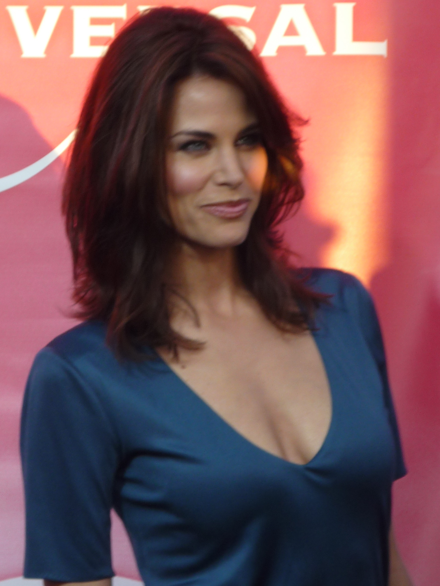 Actress Brooke Burns at Showtime's 2010 Summer TCA.